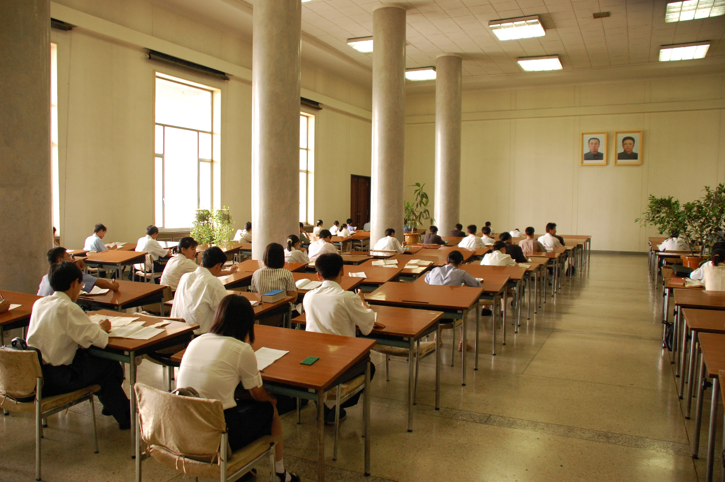 Trip to North Korea in July, 2007